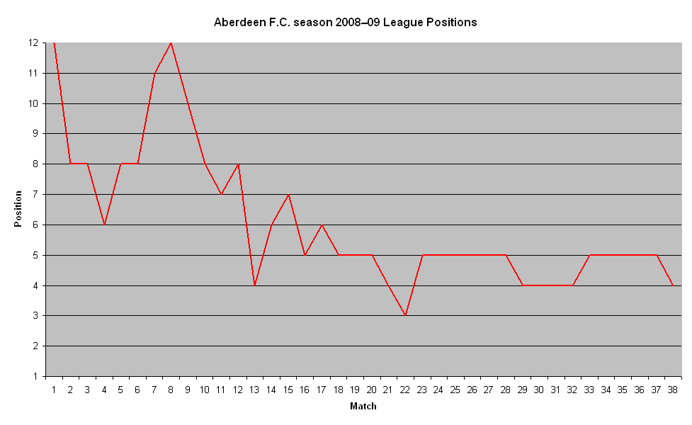 League positions diagram